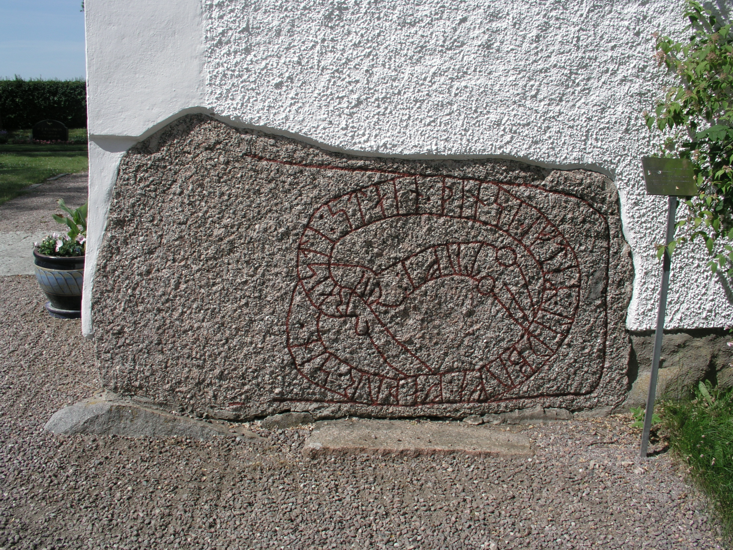 'Tove erected this stone after Lid-Bove, her father'.